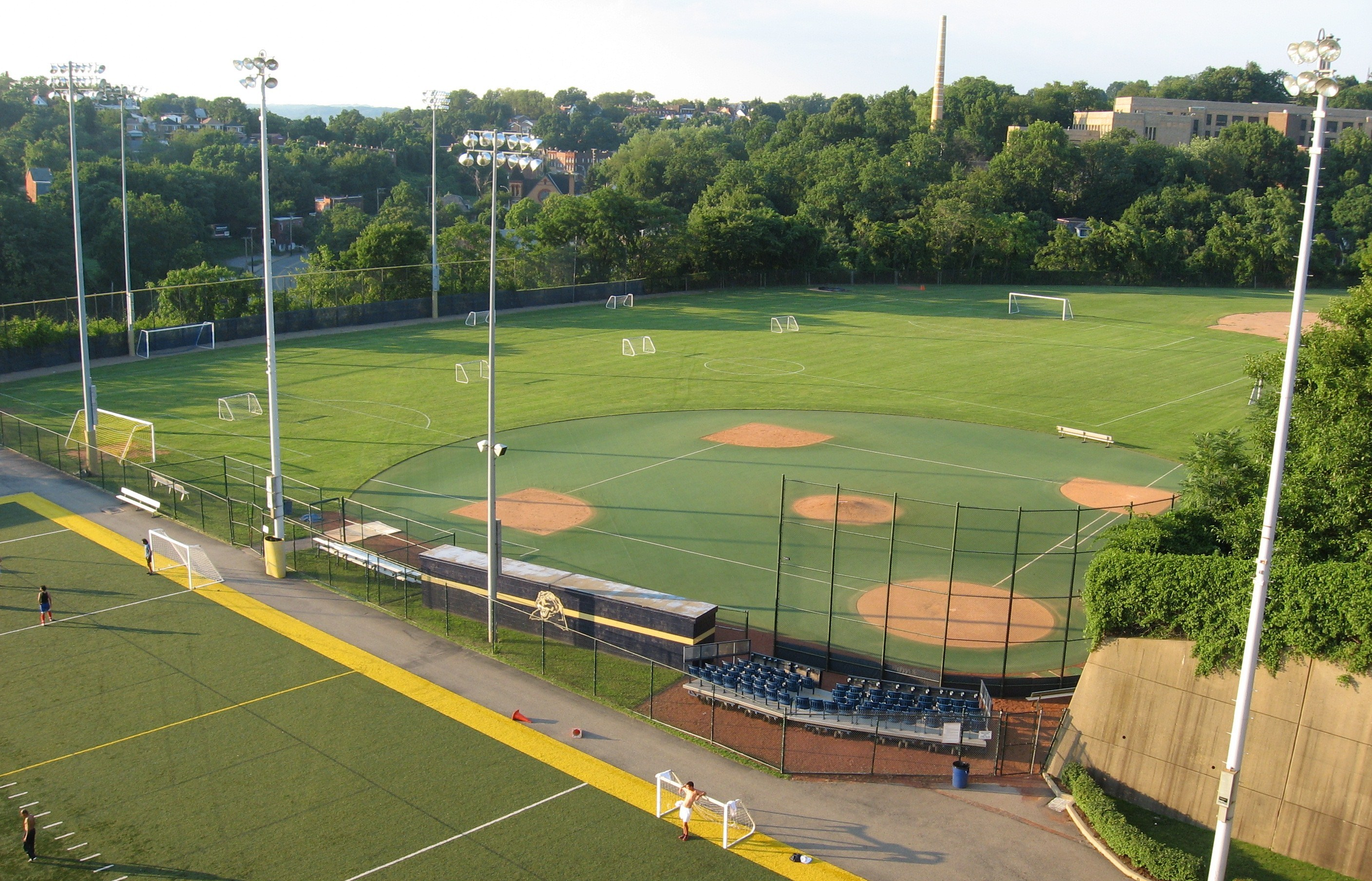 Trees Field, behind the Cost Sports Center at University of Pittsburgh40°26′52″N 79°57′49.2″W / 40.44778°N 79.963667°W